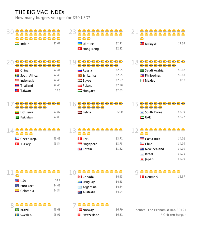 Visualizing how many Big Mac -burgers you get for $50 USD in different countries. Data based on the Big Mac index by The Economist -magazine January 2012.